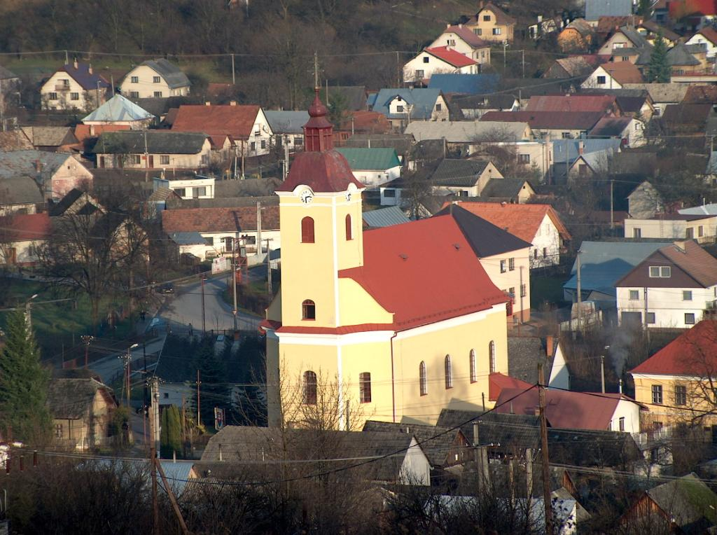 Chucrch of slovak village Udica